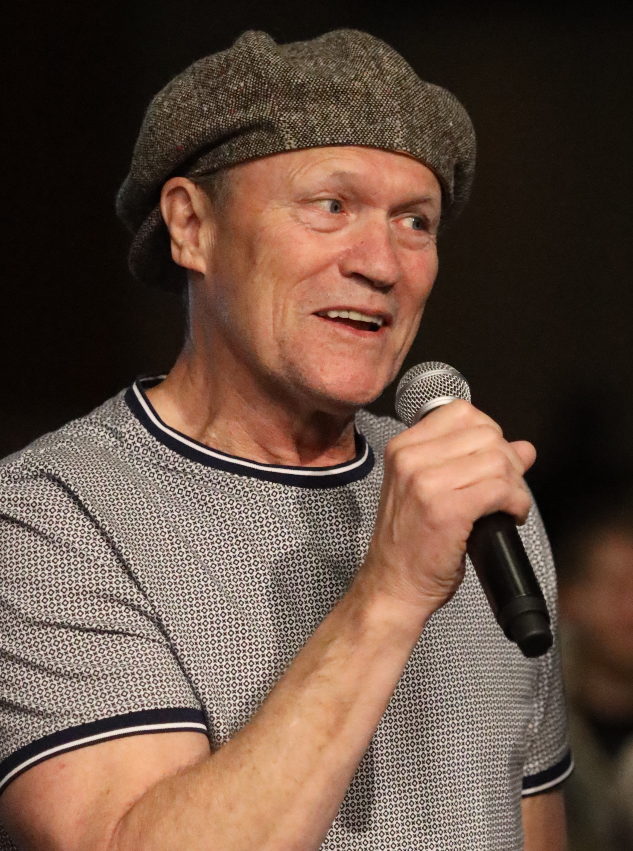 Michael Rooker at GalaxyCon Richmond in 2020